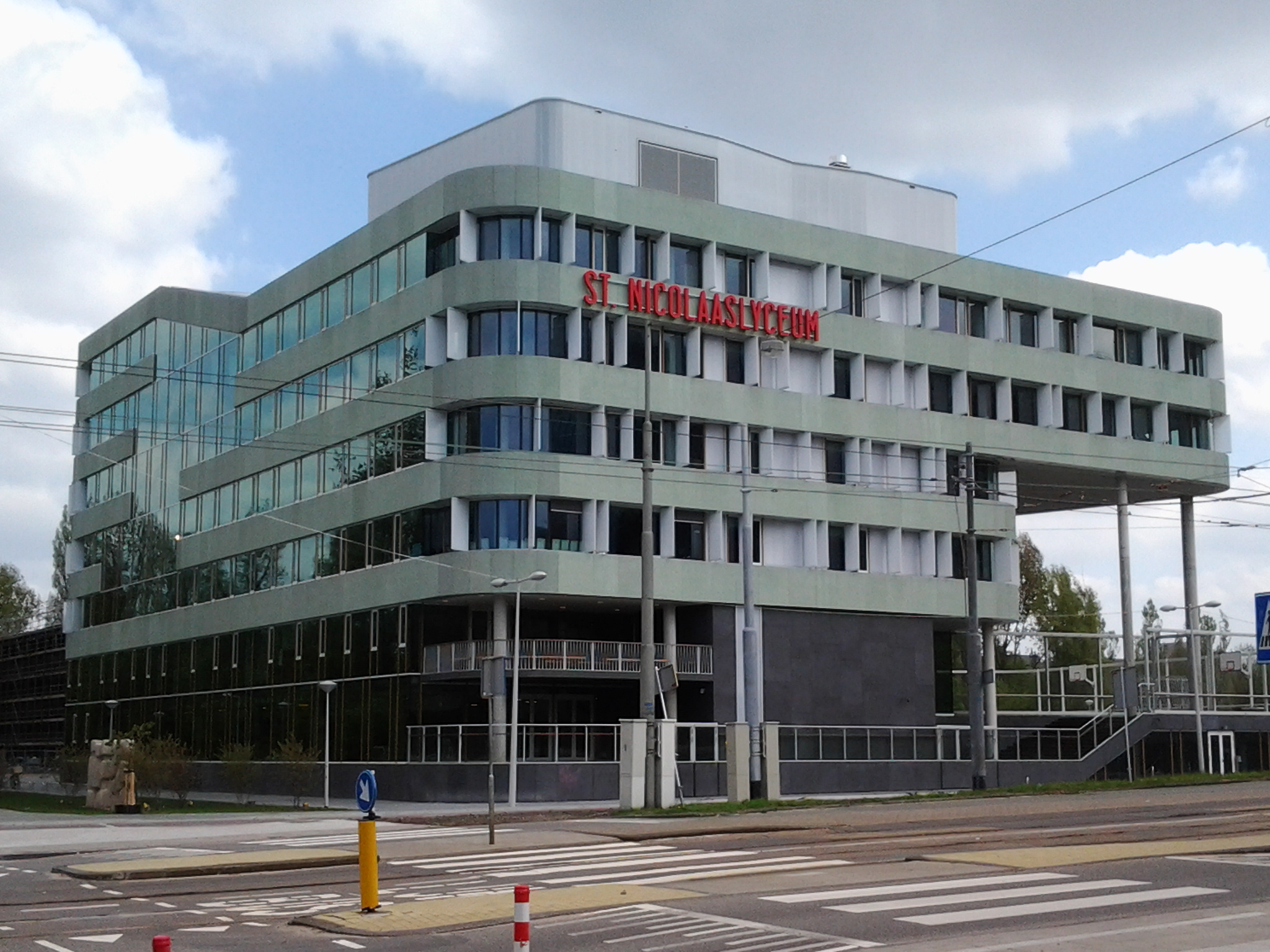 Sint-Nicolaas-lyceum, secondary school in Amsterdam, seen from the crossing of Prinses Irenestraat and Beethovenstraat